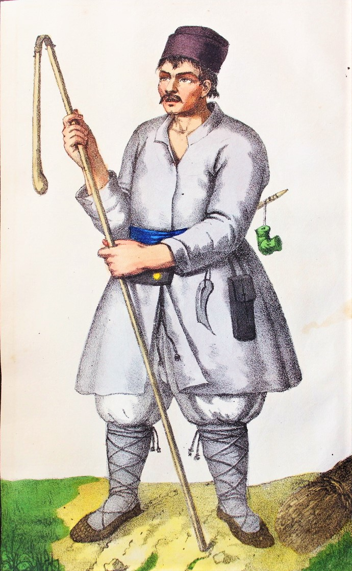 Man from Lithuania (modern Belarus)